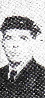 1918 photo of Felix Rigau Carrera, Puerto Rico's first pilot. Sourcce "El Imparcial"; October 20, 1920; #1177 Licensing Image ir pre-1923 and therefore free of copyright laws.